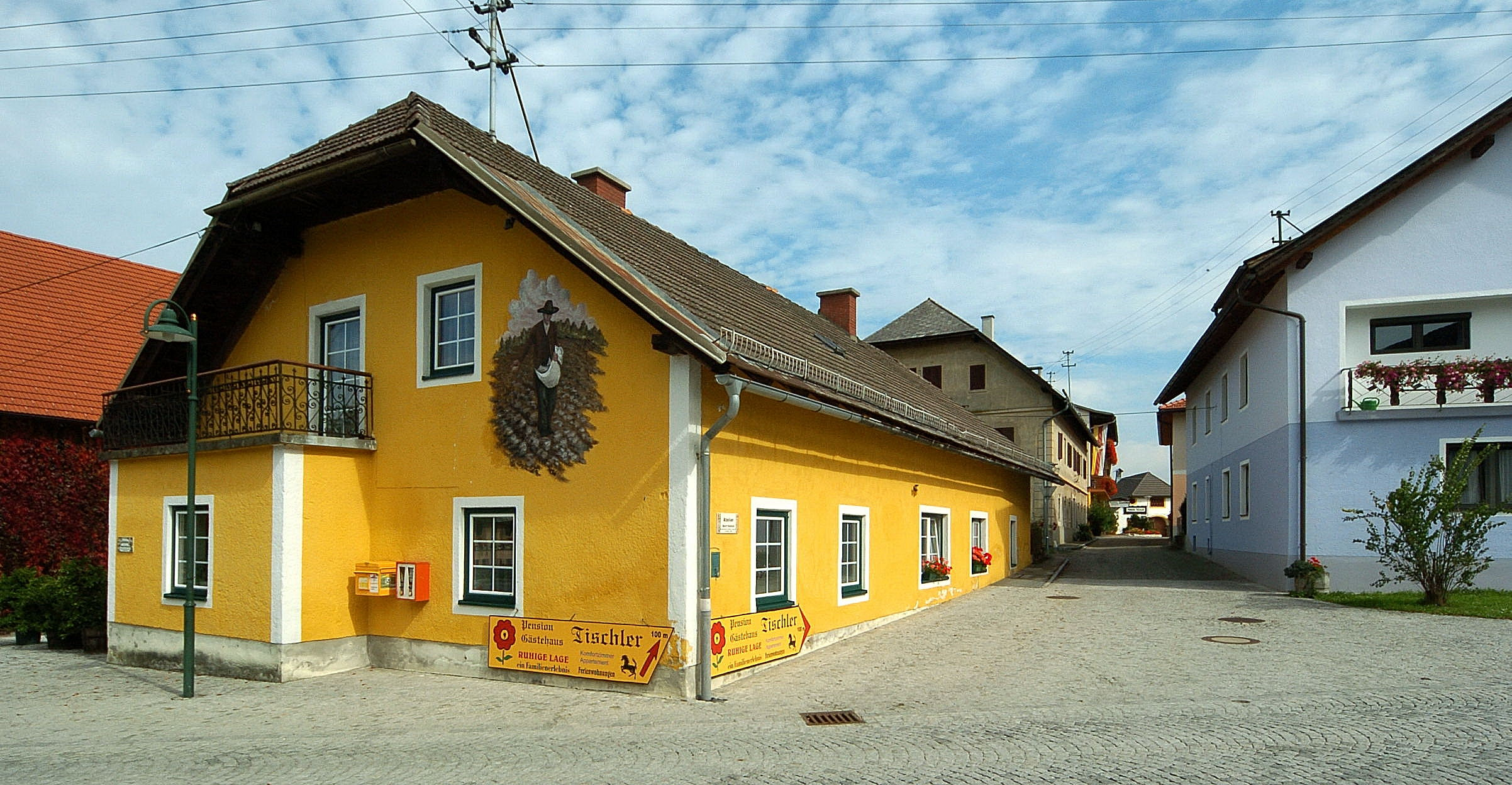 Model view of a place at Kirschentheuer in the community Ferlach, district Klagenfurt-Land, Carinthia, Austria